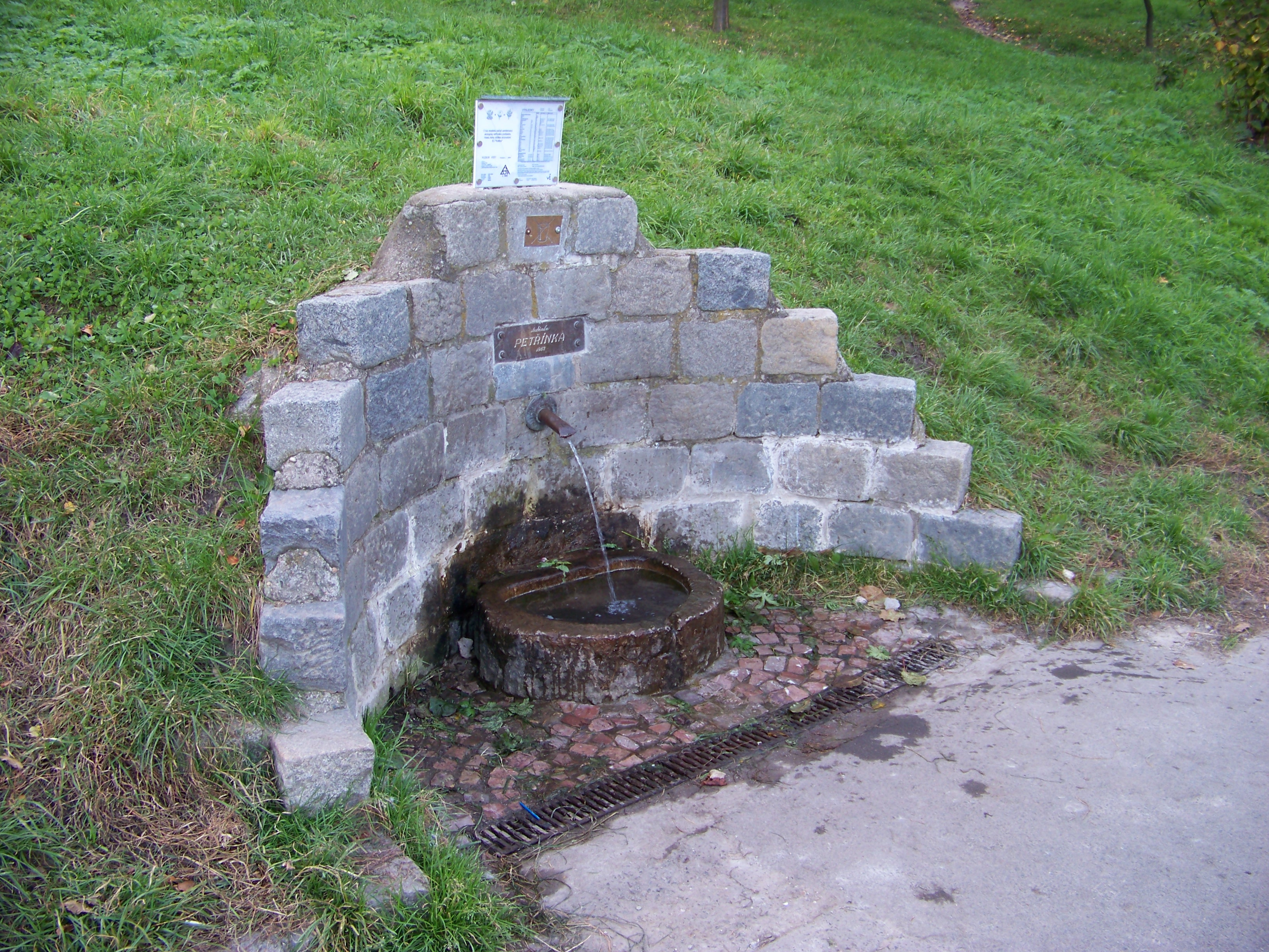 Prague-Malá Strana, the Czech Republic, Petřín Hill, Petřínka Spring.